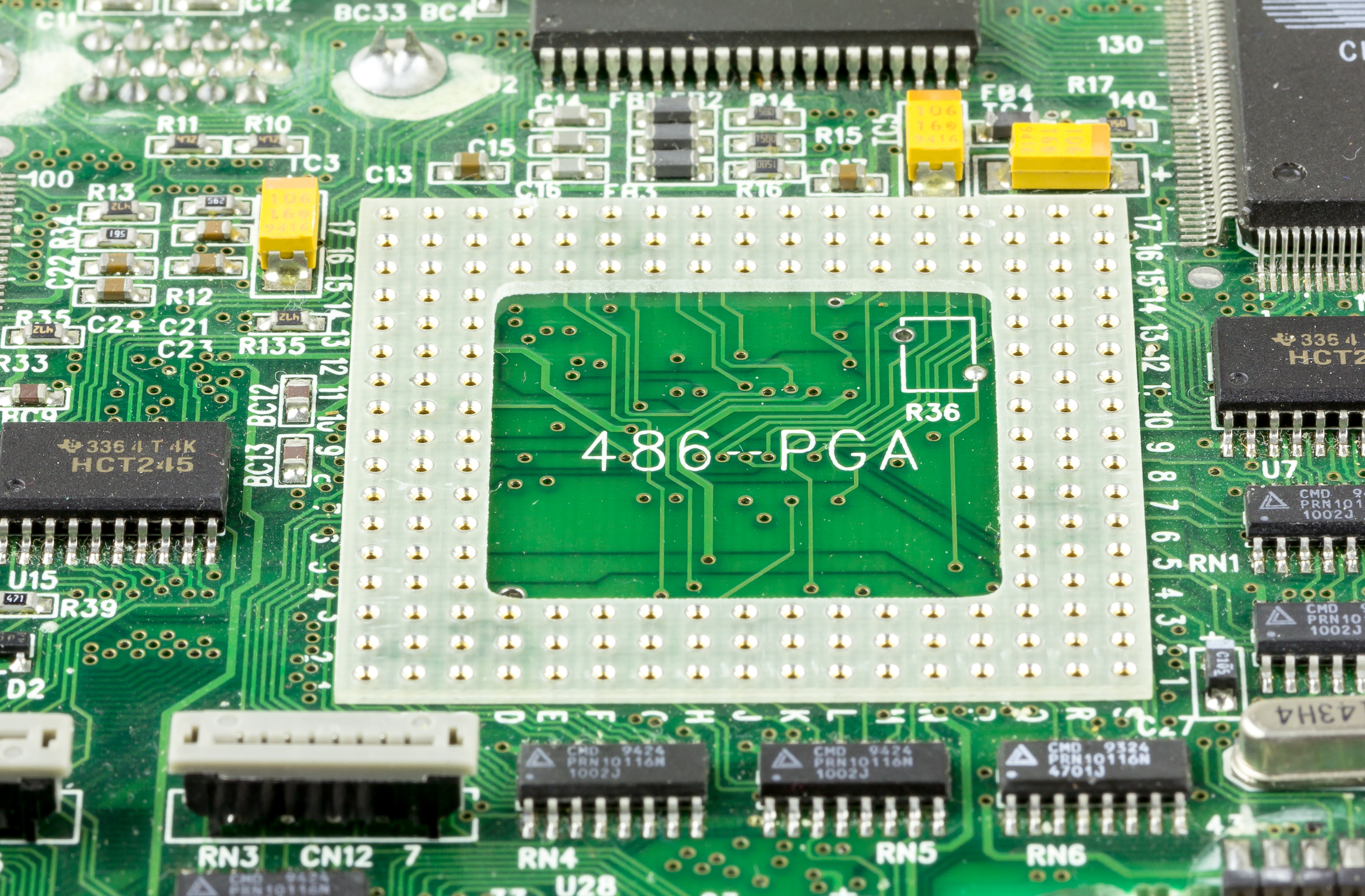 Laptop Acrobat Model NBD 486C, Type DXh2 - socket 486 on motherboard